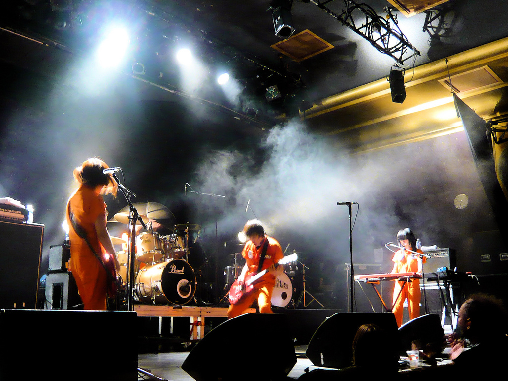 Polysics live at the Olympic, Nantes, France. Last show of their European tour in early 2008.